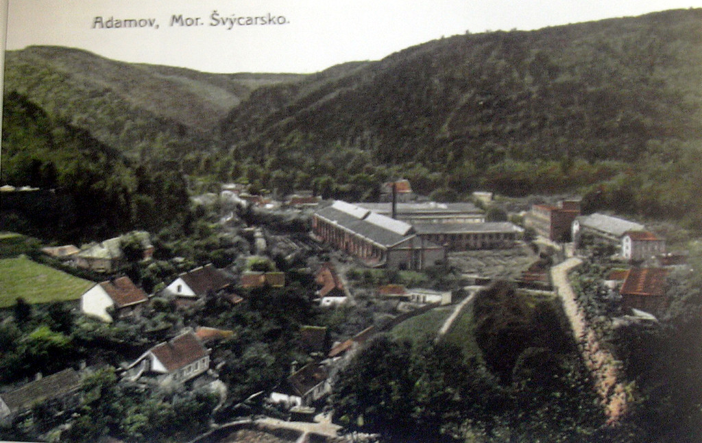 Adamov (Czech Republic)